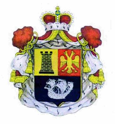 Coat of arms of the Andronikashvili princely family (The coa was designed in the 19th century)